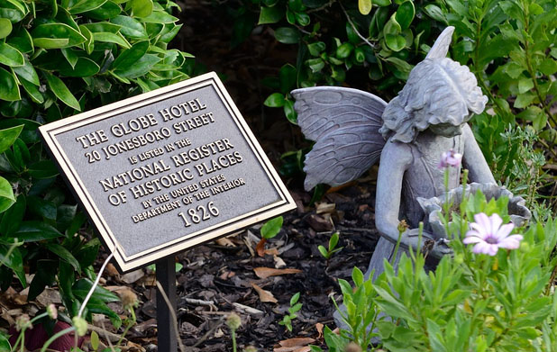 Placard describing Globe Hotel in McDonough GA